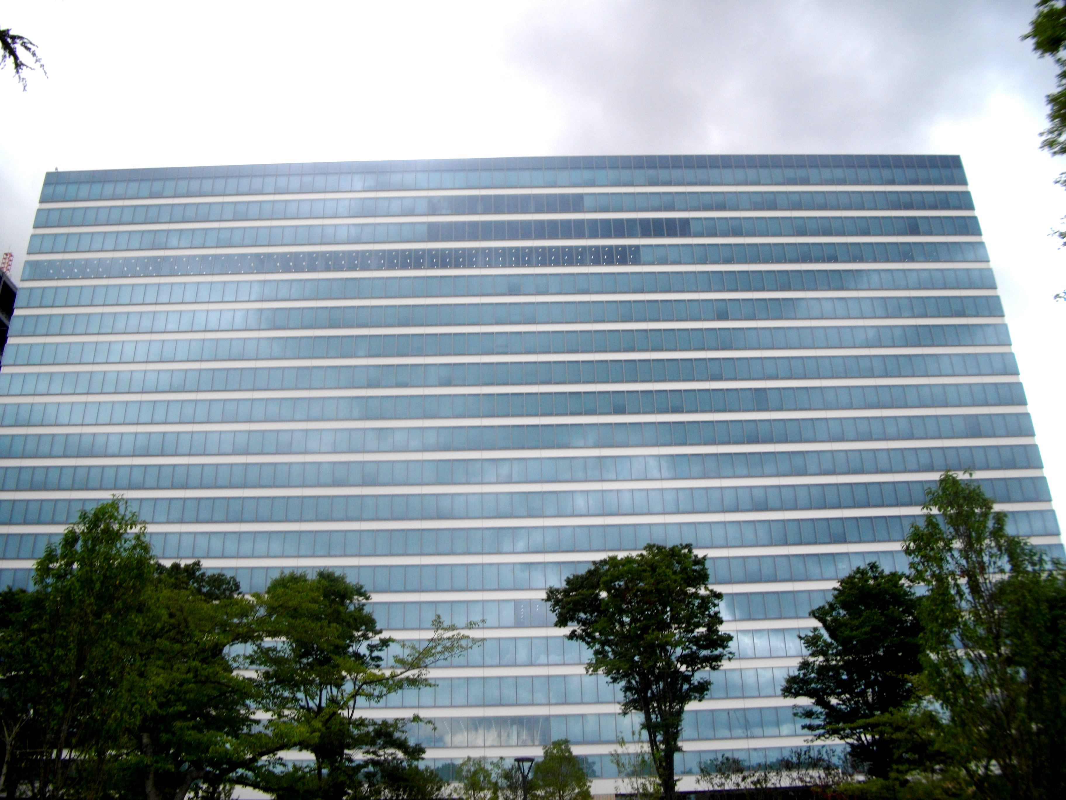 A photo of Nakank Central Park South Building,Nakano,Nakano-ku,Tokyo,Japan.